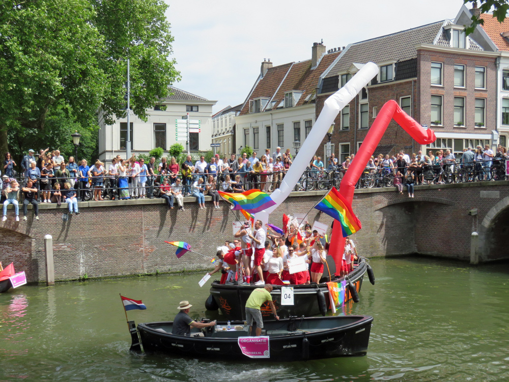 A boat participating in the first Utrecht Canal Pride, held on June 17, 2017 on the Oudegracht canal in the city of Utrecht.